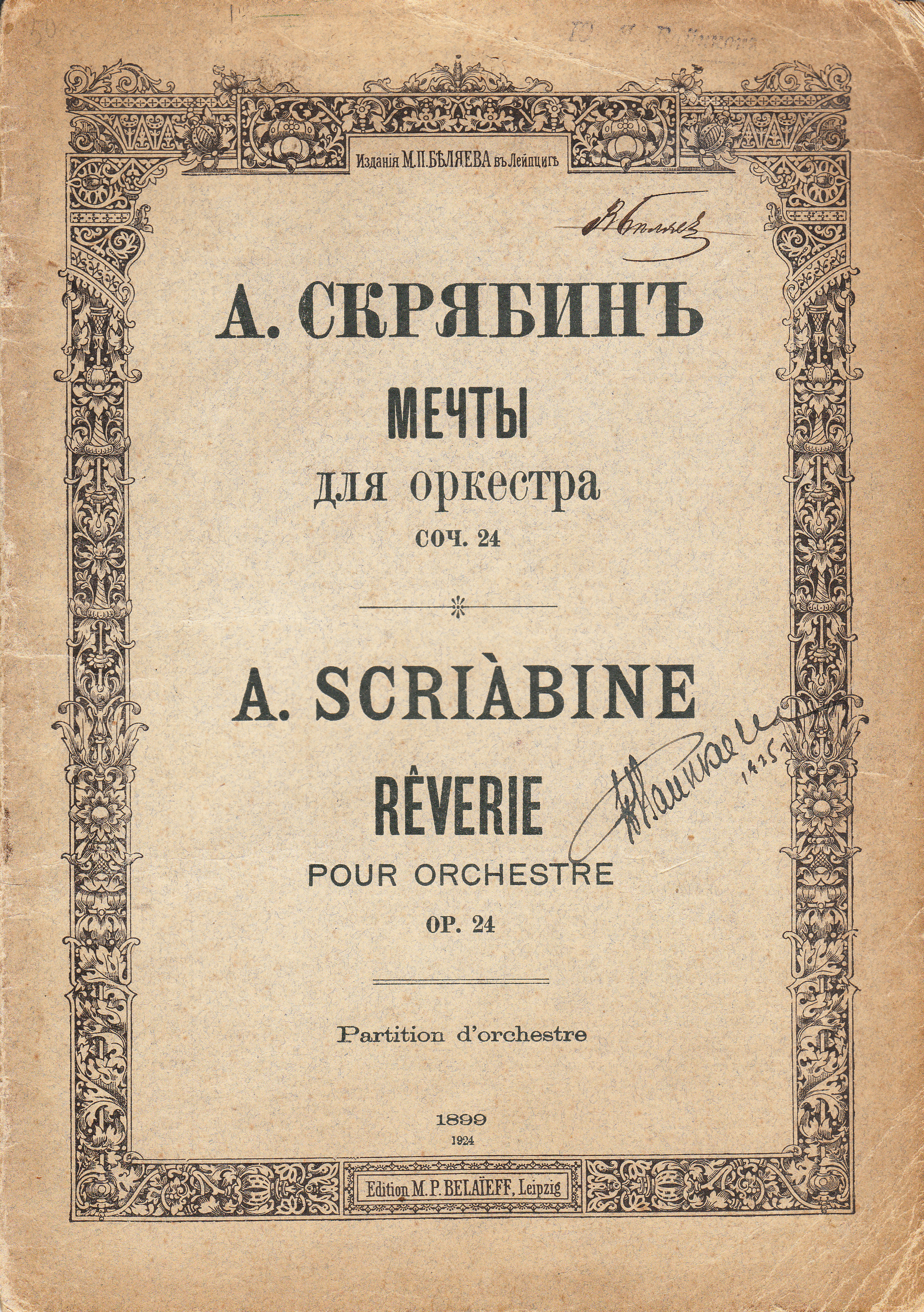 First edition of the score